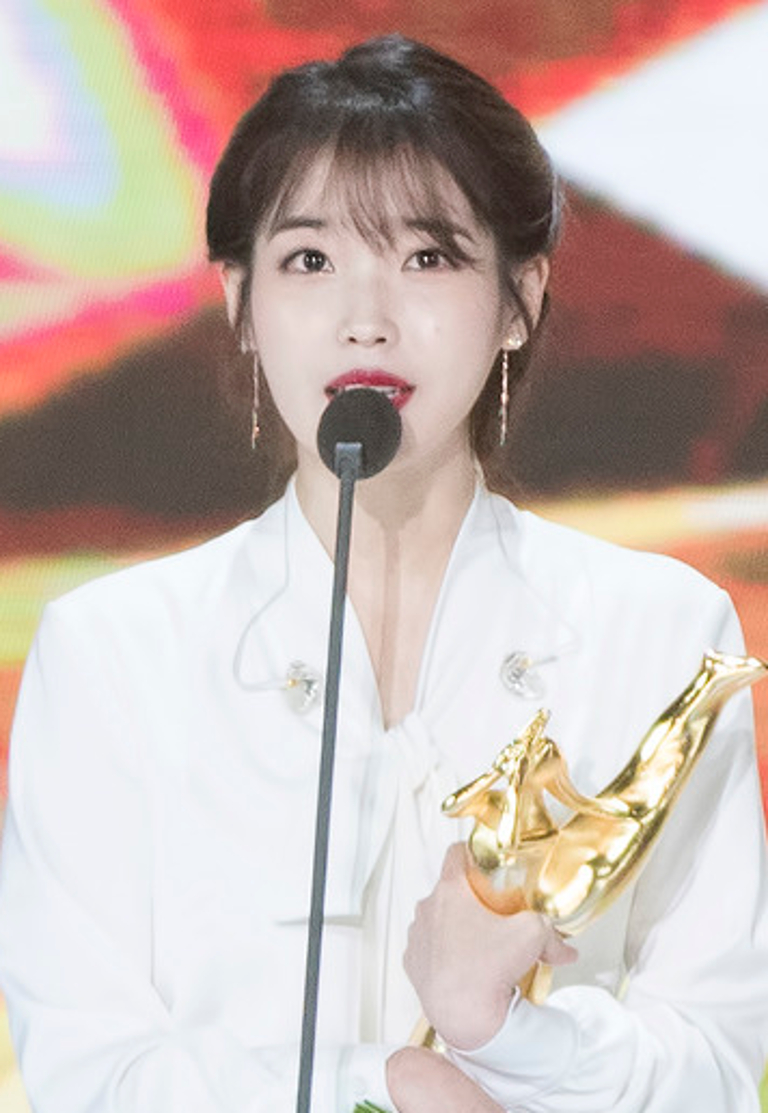 IU at Golden Disk Awards on January 10, 2018.